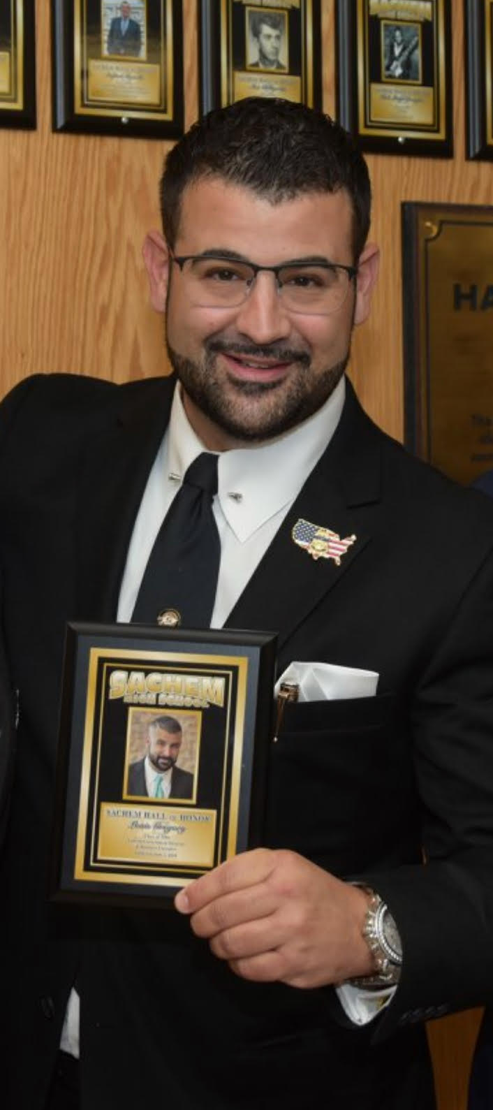 Uncle Louie induction into the Sachem Hall of Fame